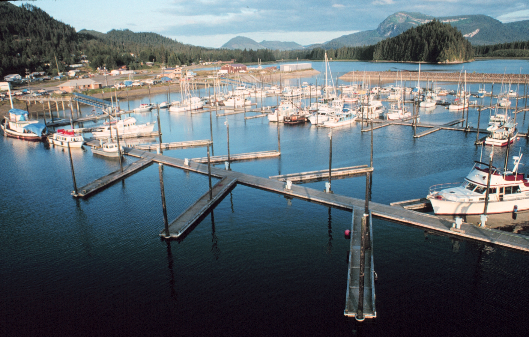 The inner harbor of Hoonah, Alaska